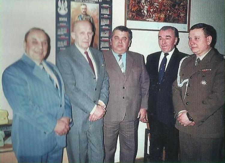 Garnizon Stargard, 1991r. Spotkanie dowódców batalionu medycznego z okazji 30-lecia jednostki.